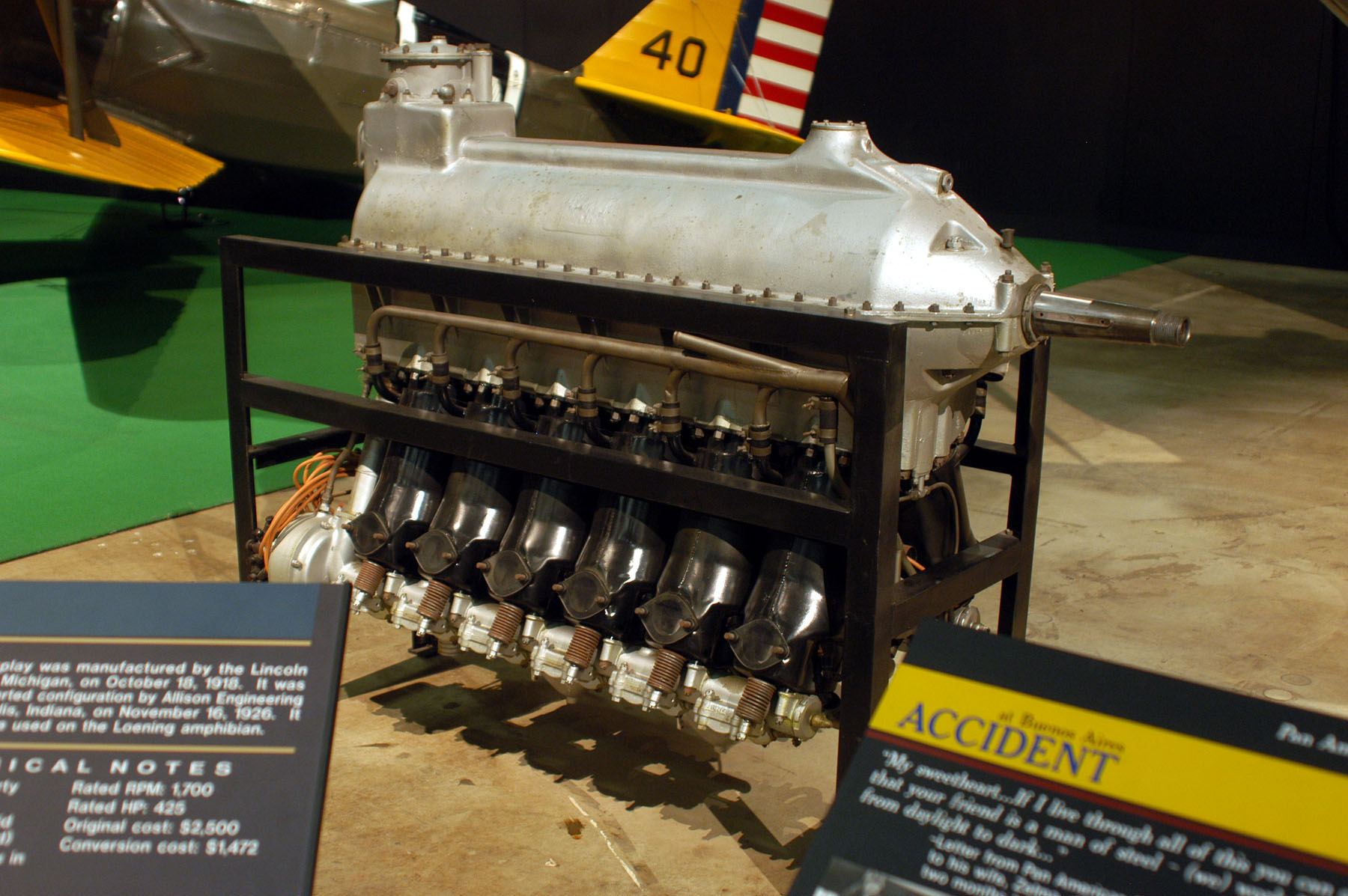 Liberty 12-A Inverted Engine U.S. Air Force.